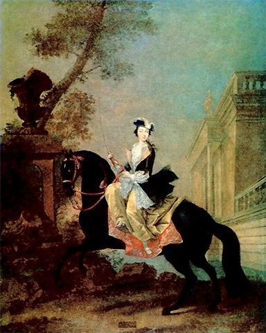 Georg Christoph Grooth (1716-49). Equestrian portrait of Grand Duchess Ekaterina Alekseyevna.